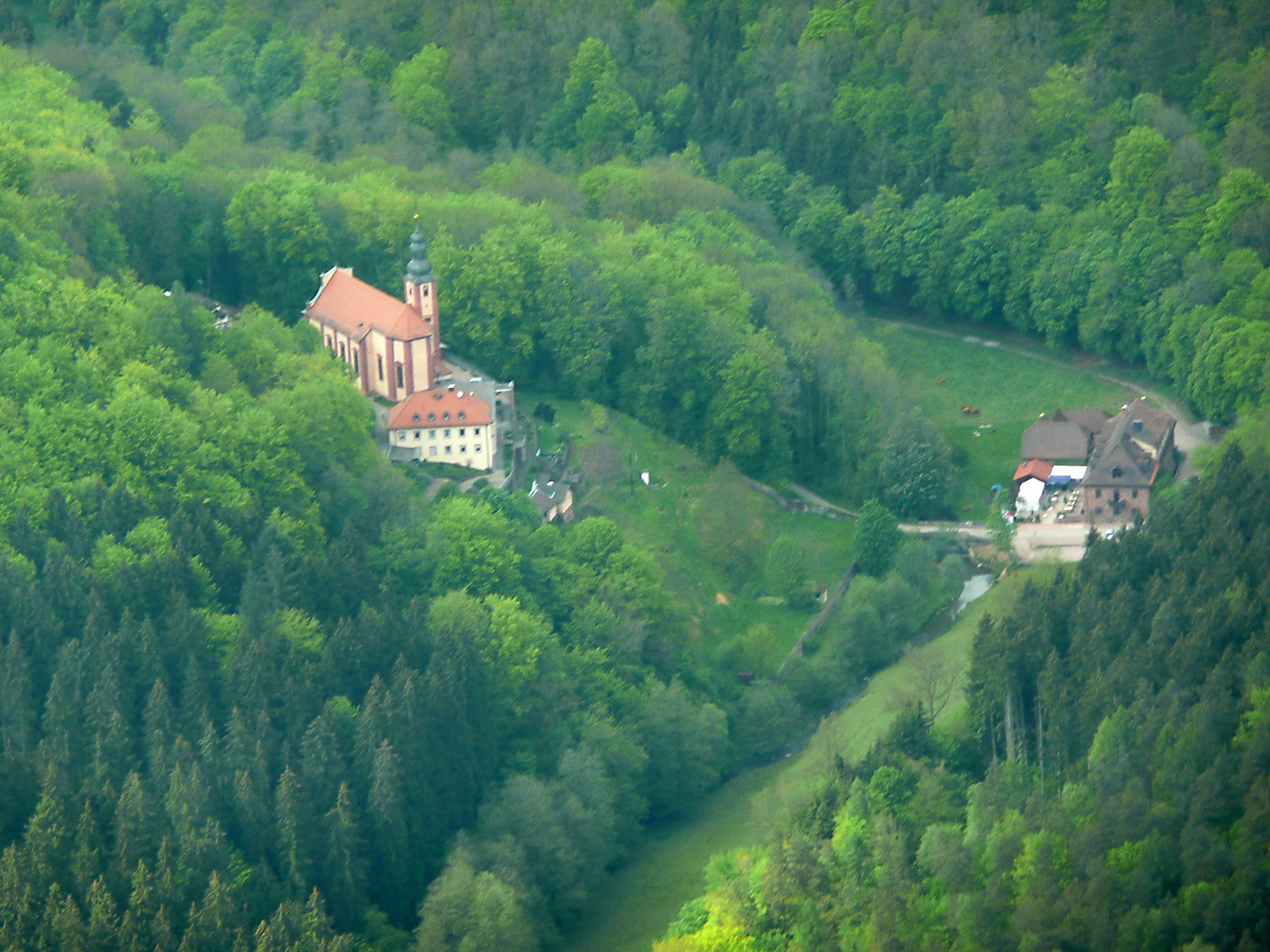 Aerial view of Mariabuchen, Germany. Valley with pilgrimage church